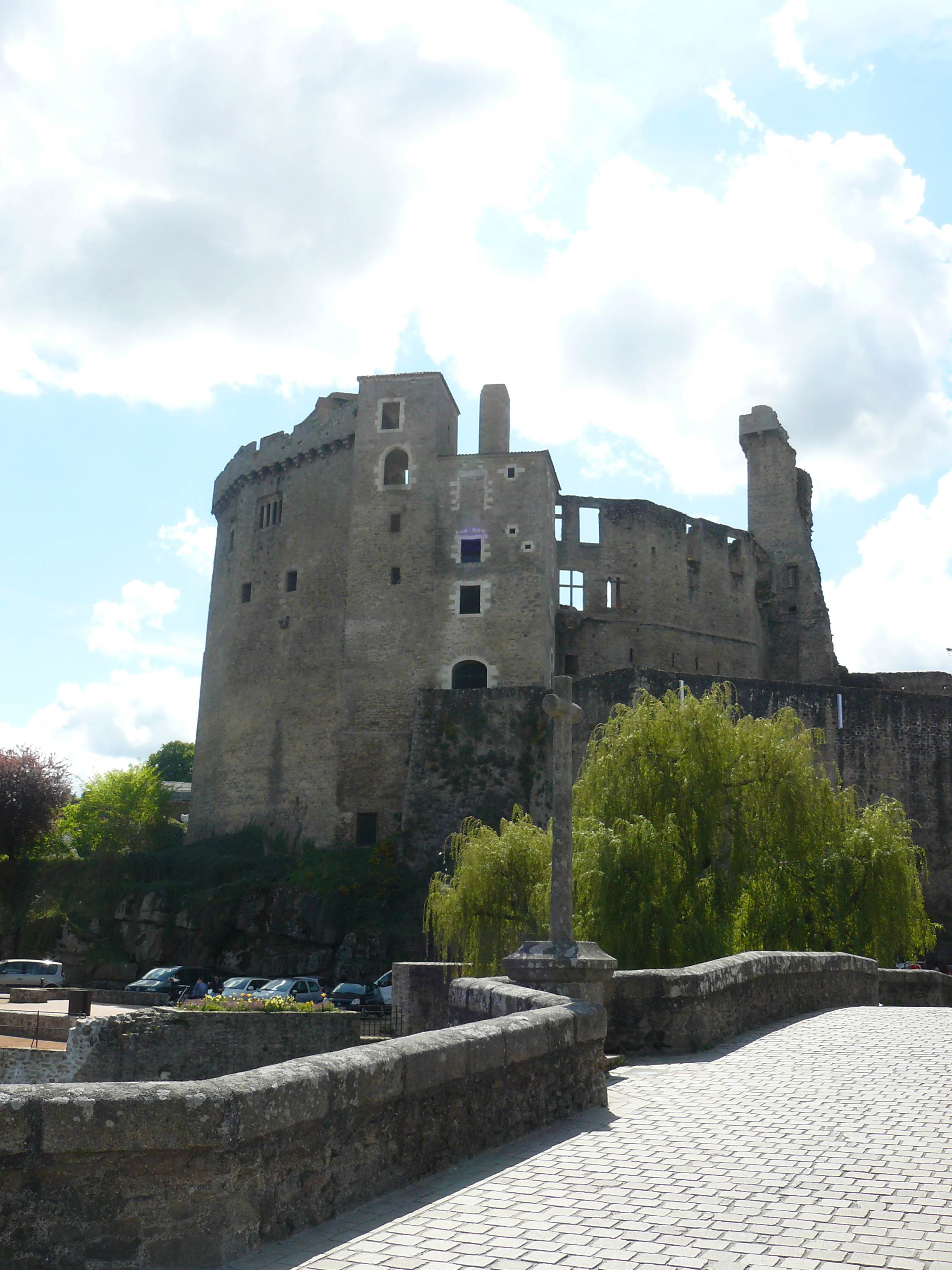 Clisson's Castle and the bridge "Vallée sur la Sèvres"